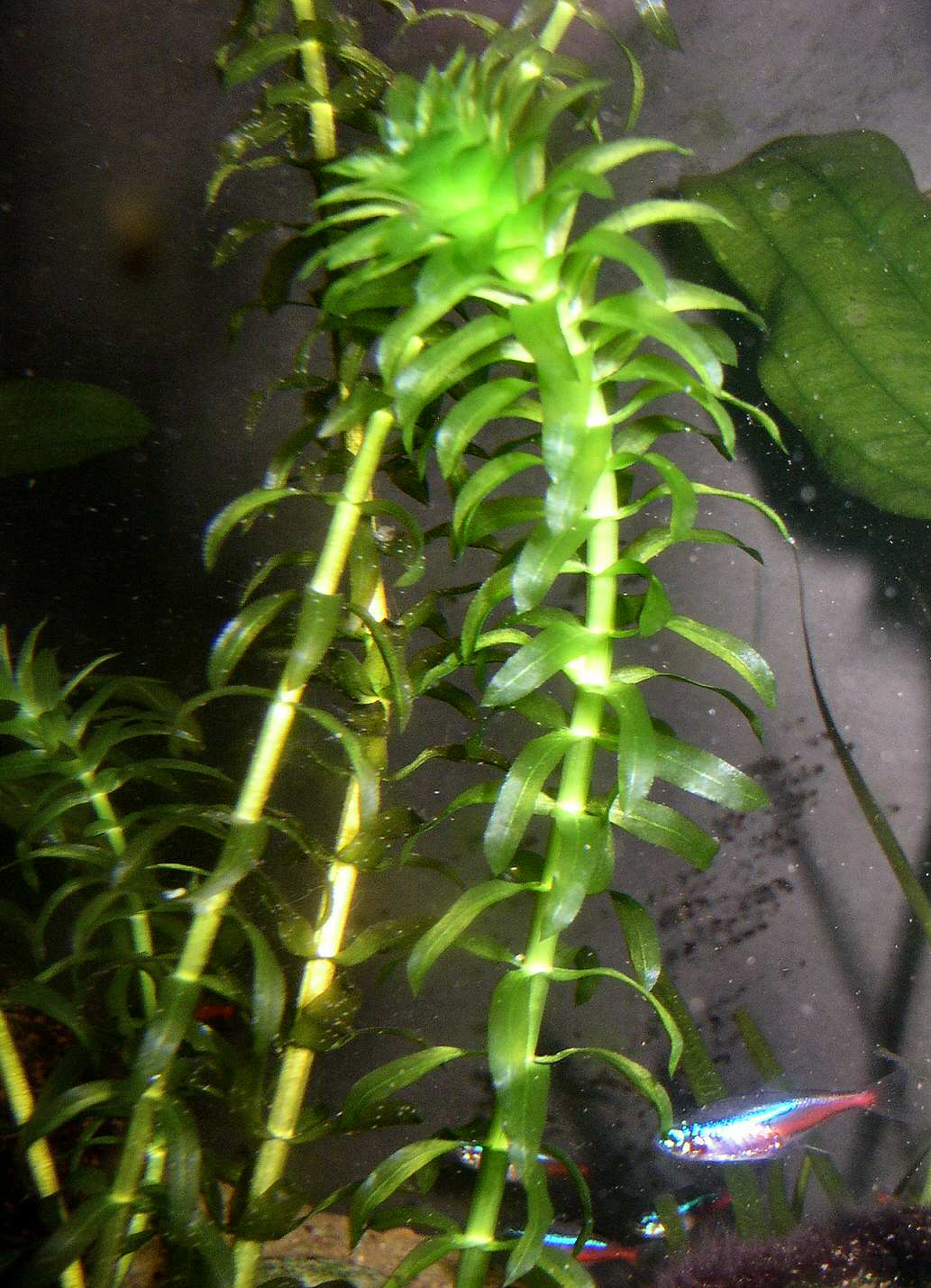 Large-flowered Waterweed (Egeria densa, syn. Elodea densa), also known as Brazilian Waterweed. Photographed in aquarium